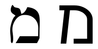 hebrew letter mem